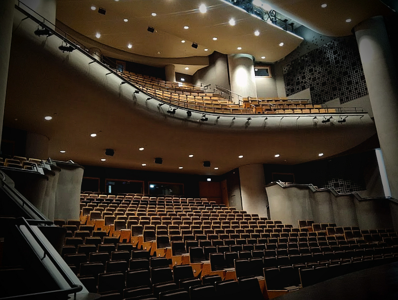 Main Hall of the Cultural and Conference Center of Crete (801 seats)